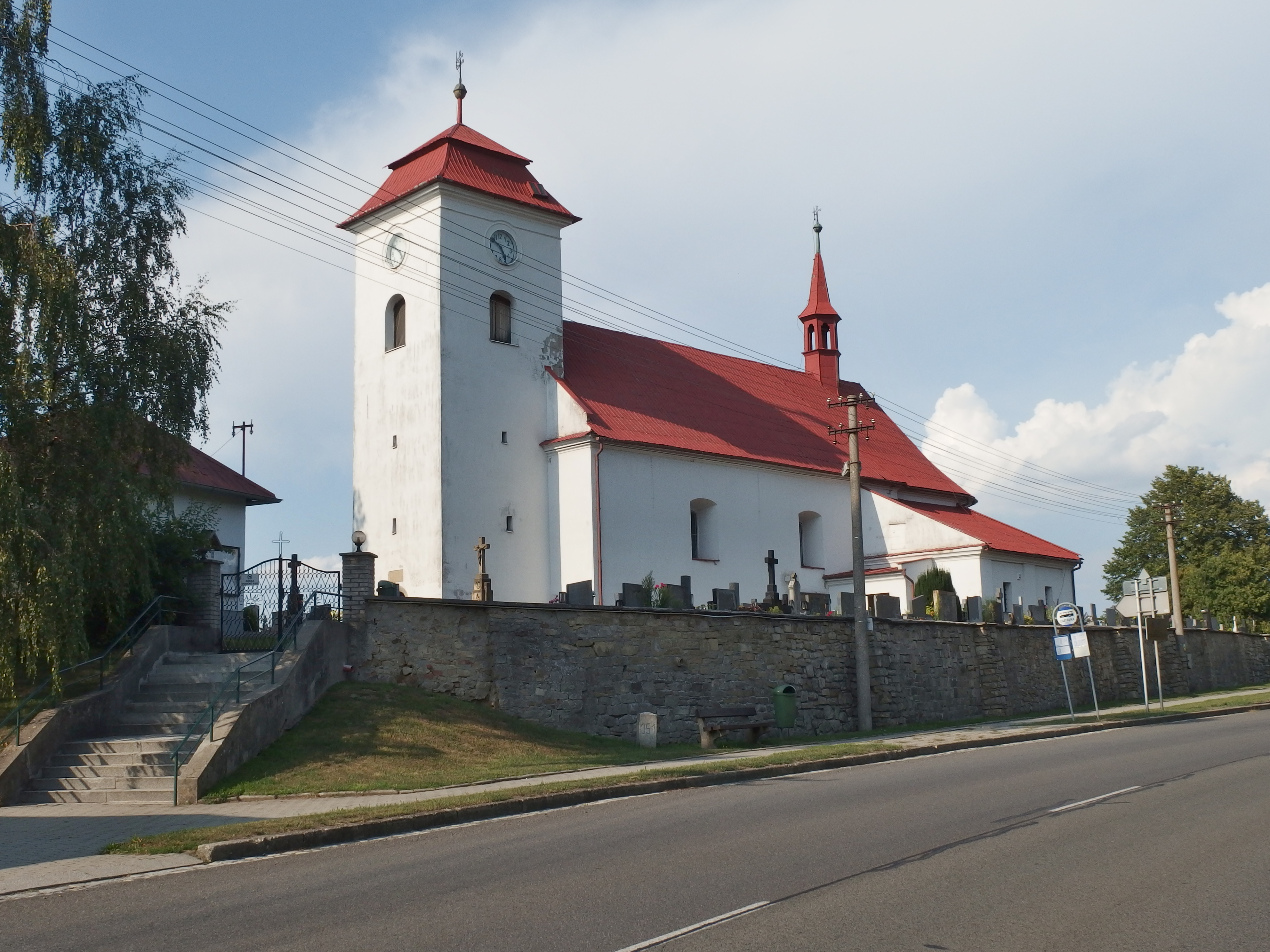 Loukov, Kroměříž District, Czech Republic.